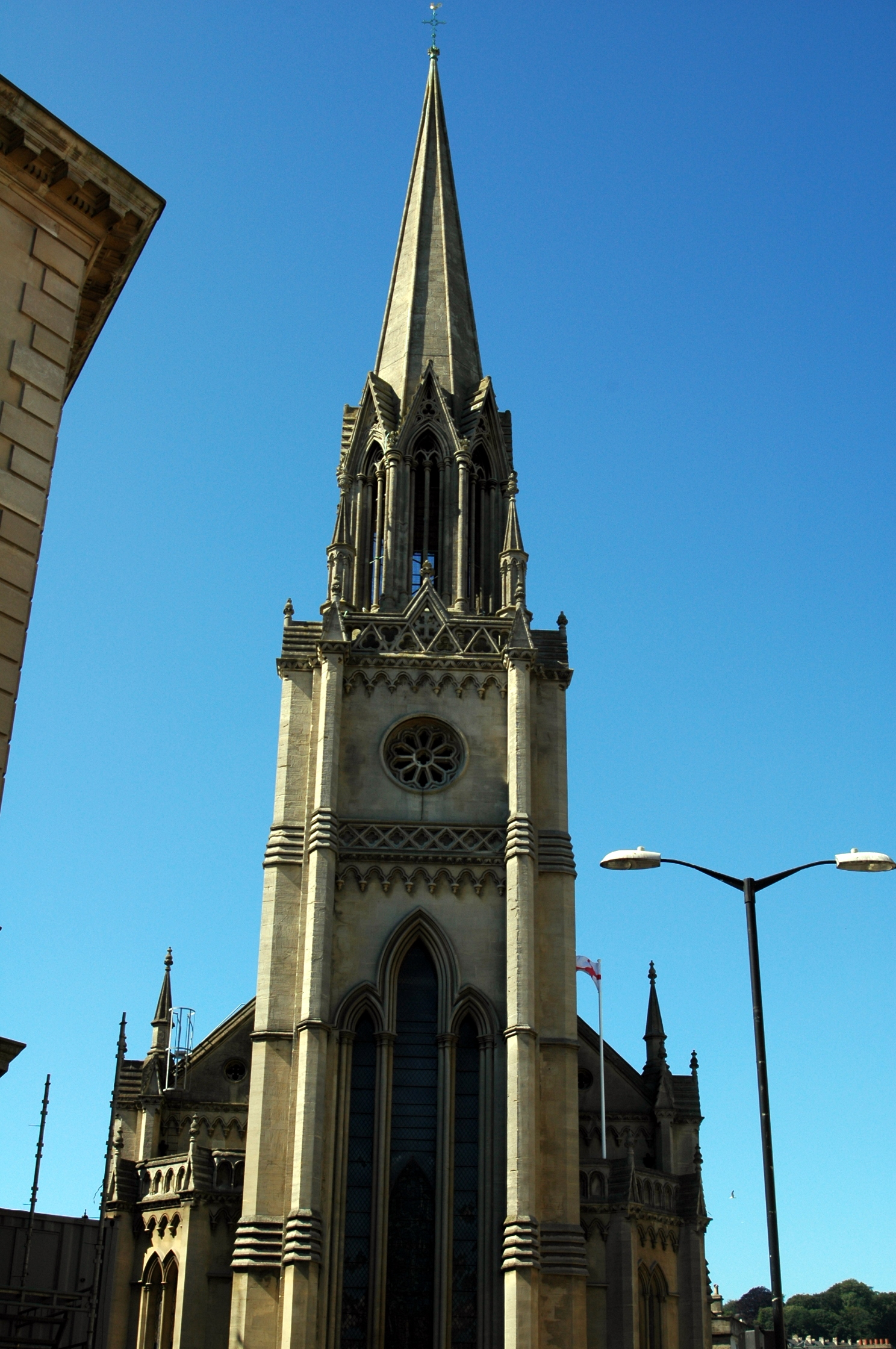 Created by Erebus555 in July 2007. This is St Michael's Church in Bath.